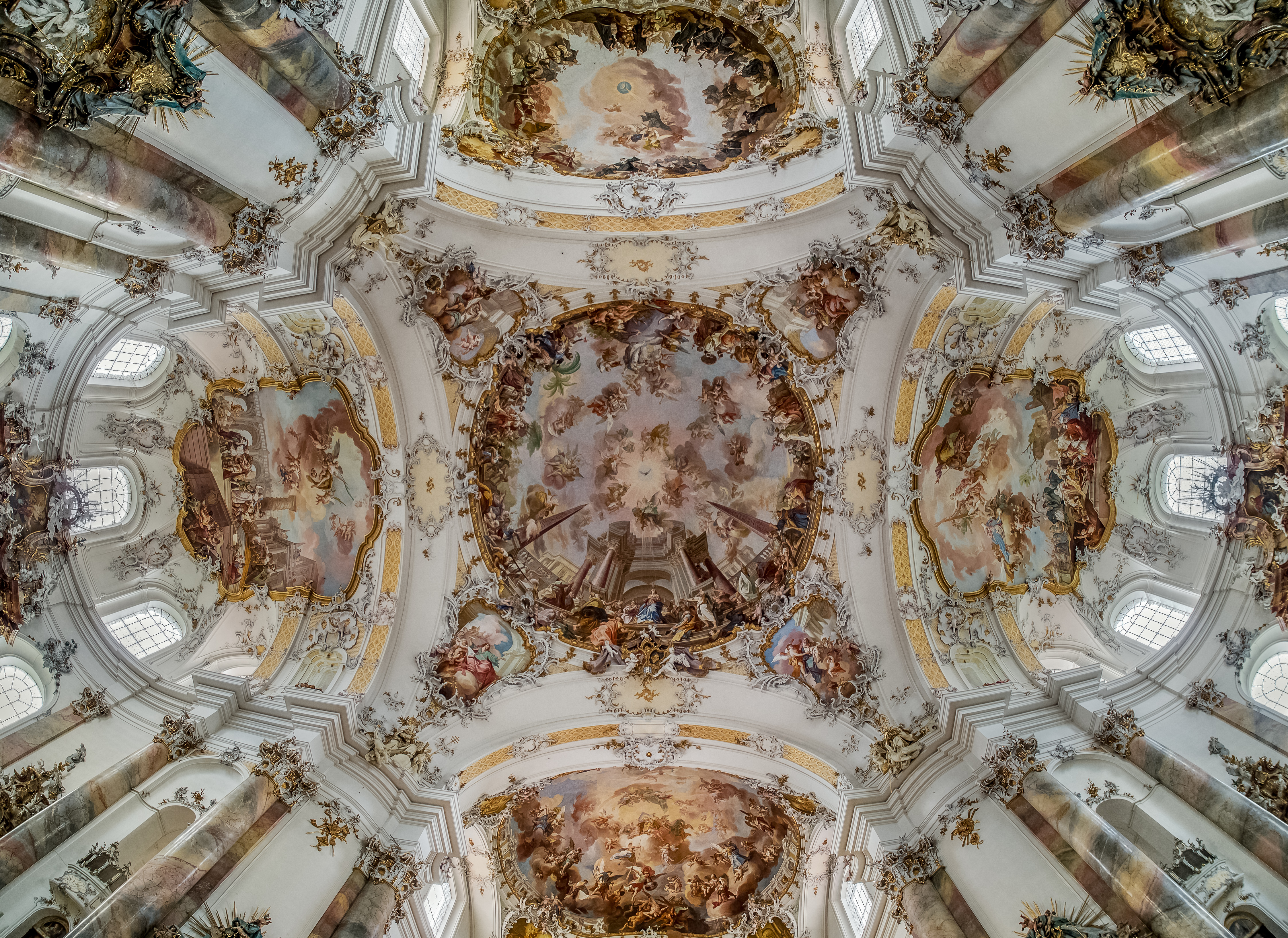 View into the central dome of the basilica Ottobeuren